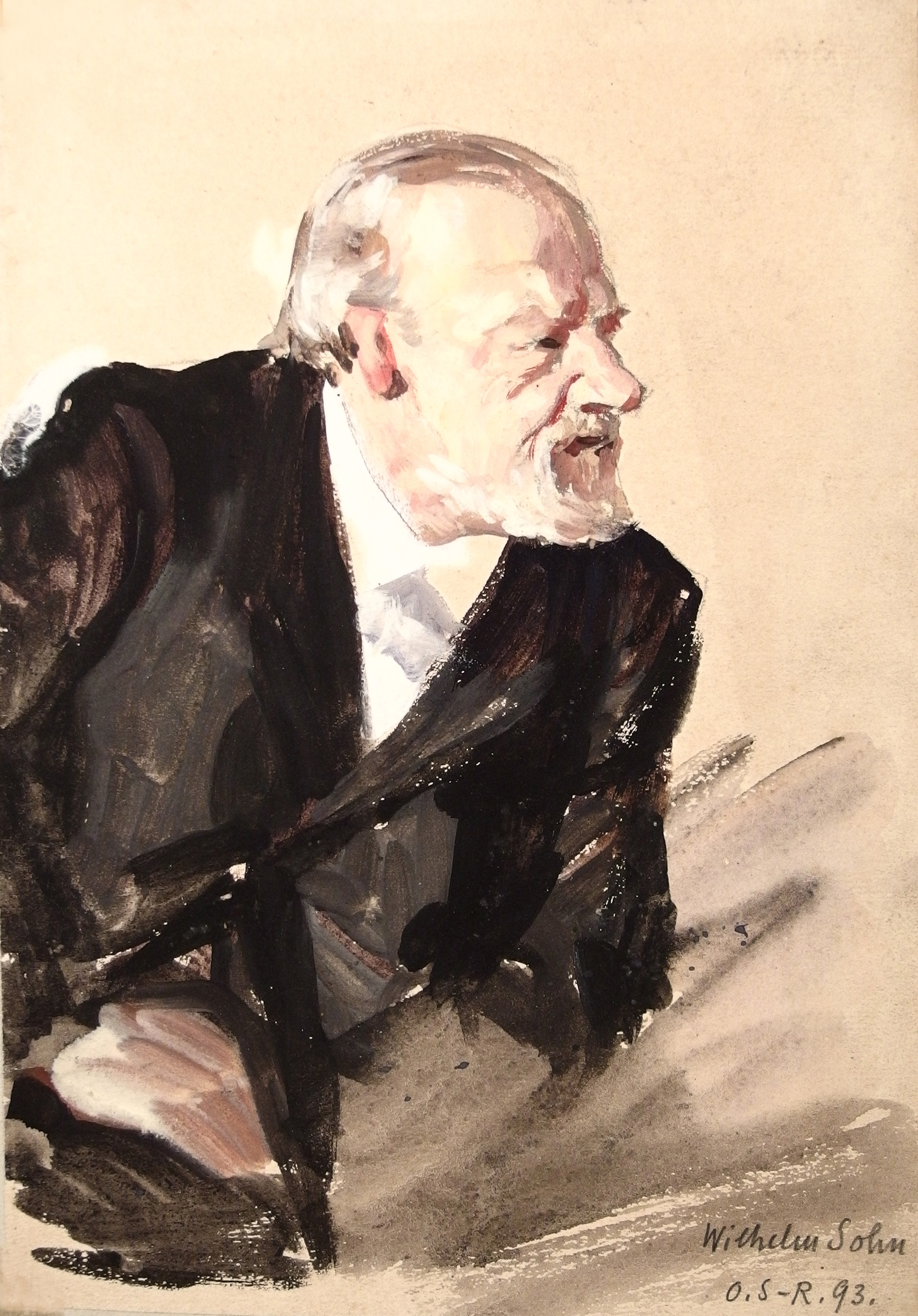 Portrait of Wilhelm Sohn, painted by Otto Sohn-Rethel at the age of sixteen in 1893